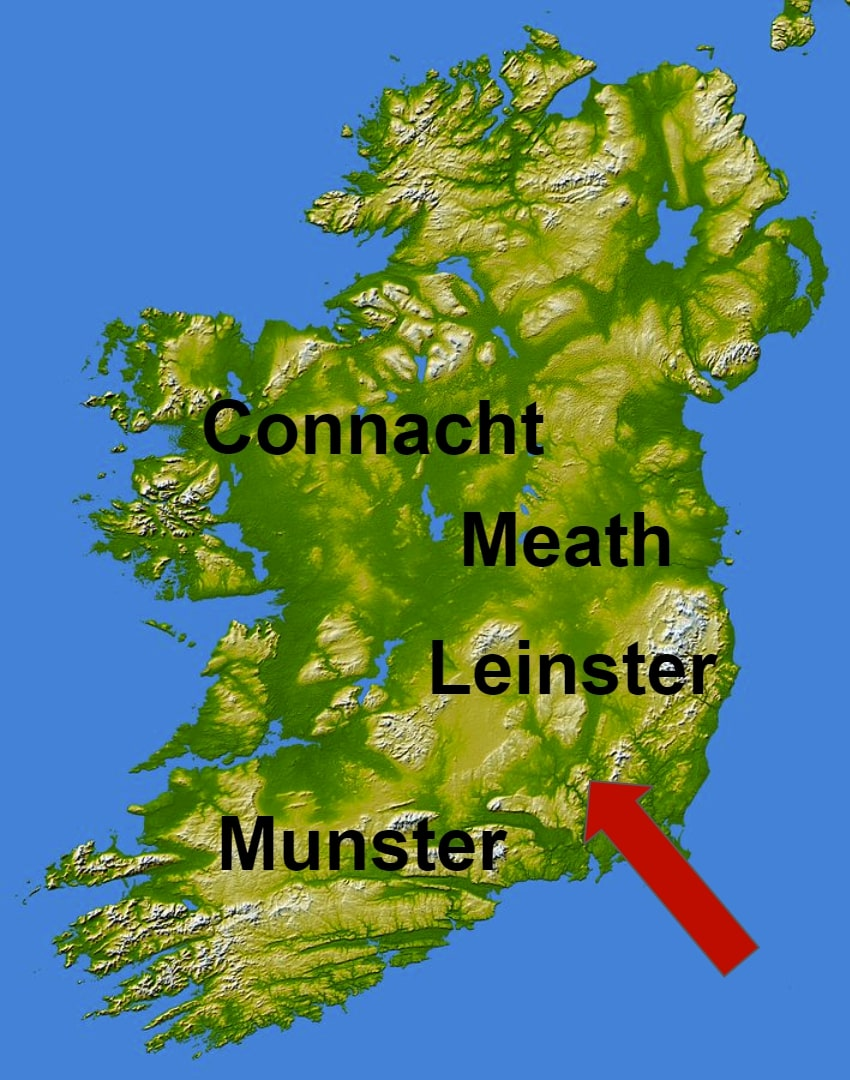 Topography of Ireland – Two visualization methods were combined to produce this image: shading and color-coding of topographic height. The shade image was derived by computing topographic slope in the northwest-southeast direction, so that northwest slopes appear bright and southeast slopes appear dark. Color-coding is directly related to topographic height, with green at the lower elevations, rising through yellow and tan, to white at the highest elevations. NASA Image ID: PIA06672.